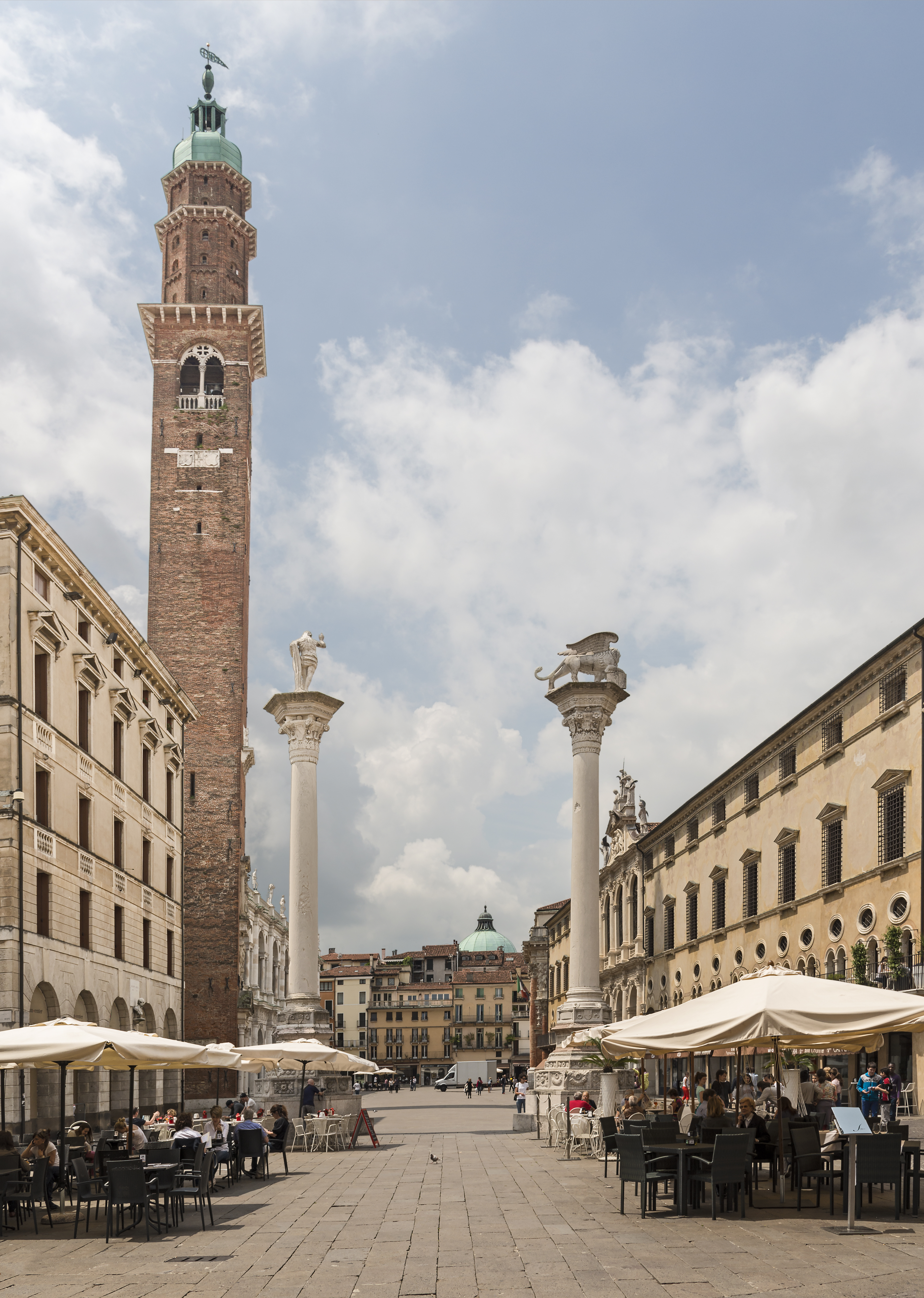 The "Piazza dei Signori" and the Torre Bissara - northeast exposure - in Vicenza.